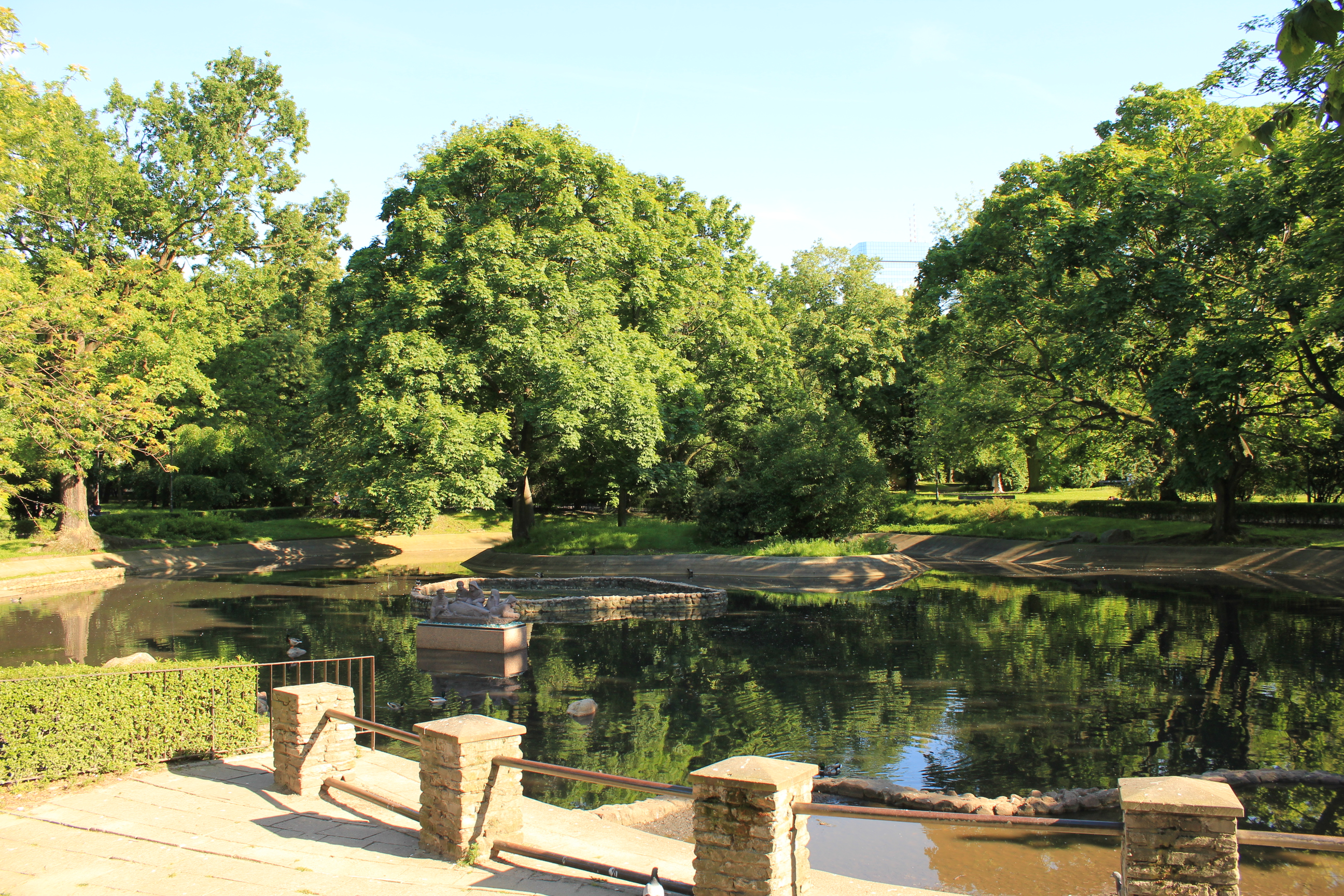 Krasiński Garden in Warsaw